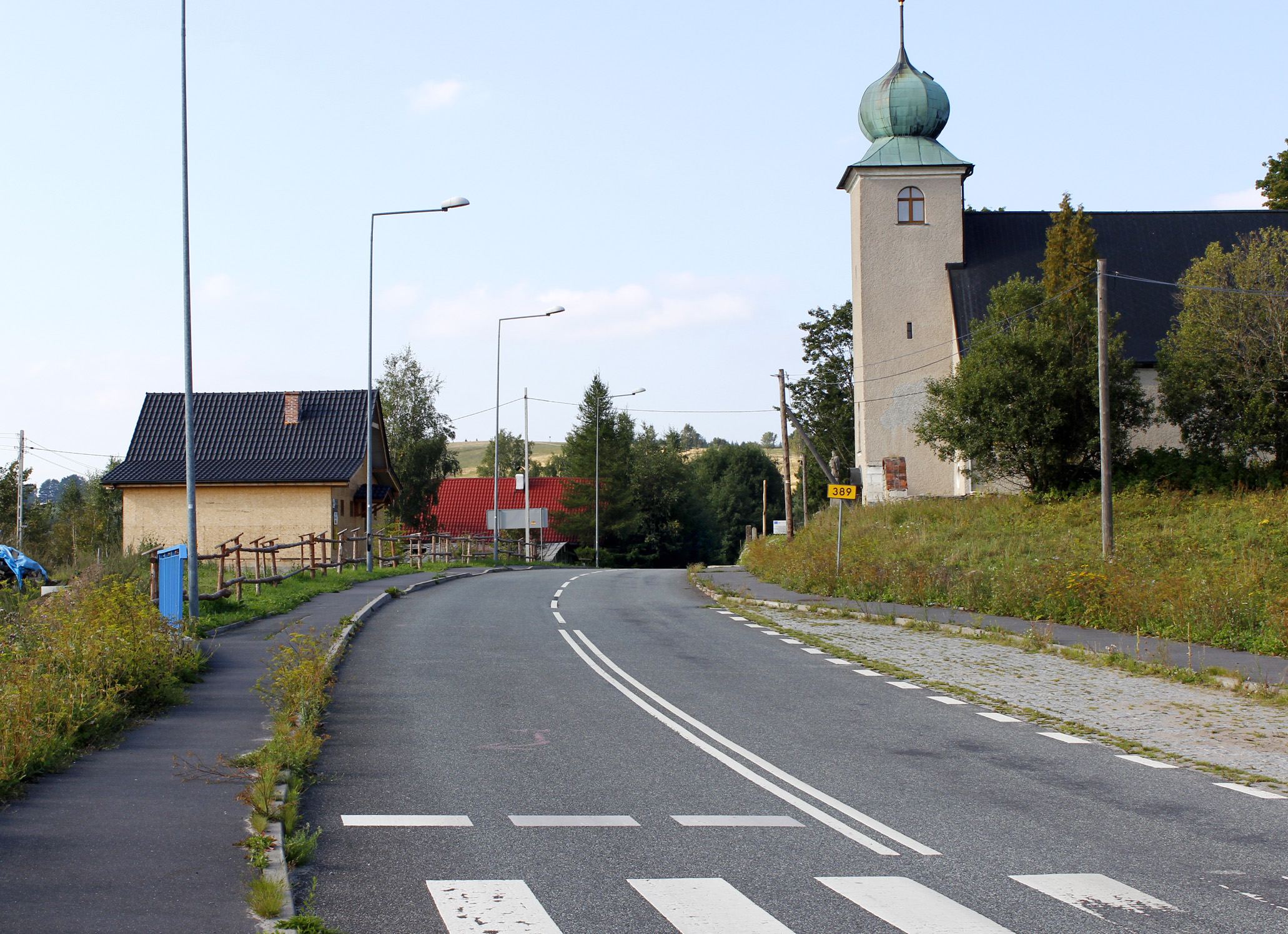 Church in Mostowice, Poland